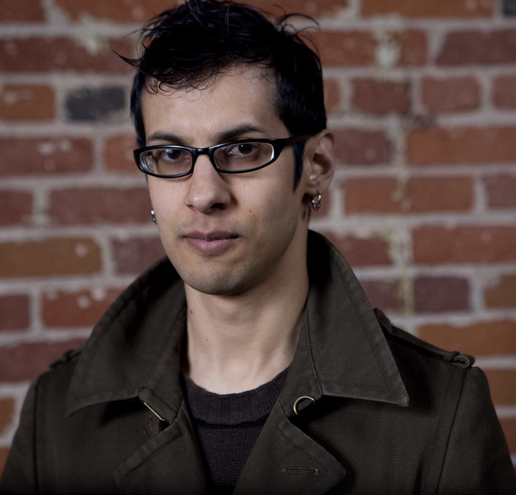 Jhonen Vasquez at BarCamp LA 4, November 2007. Cropped version of Image:Jhonen Vasquez uncropped.jpg by Dave Bullock.